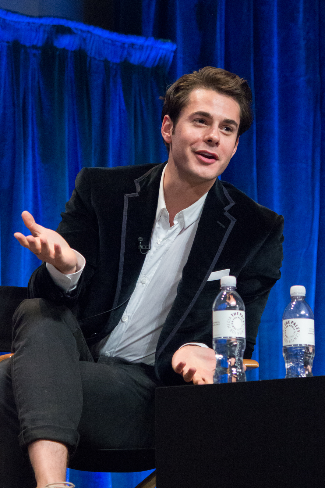 Jayson Blair at the PaleyFest 2013 panel on the TV show "The New Normal"